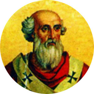 Portait of Pope Stephen III in the Basilica of Saint Paul Outside the Walls, Rome